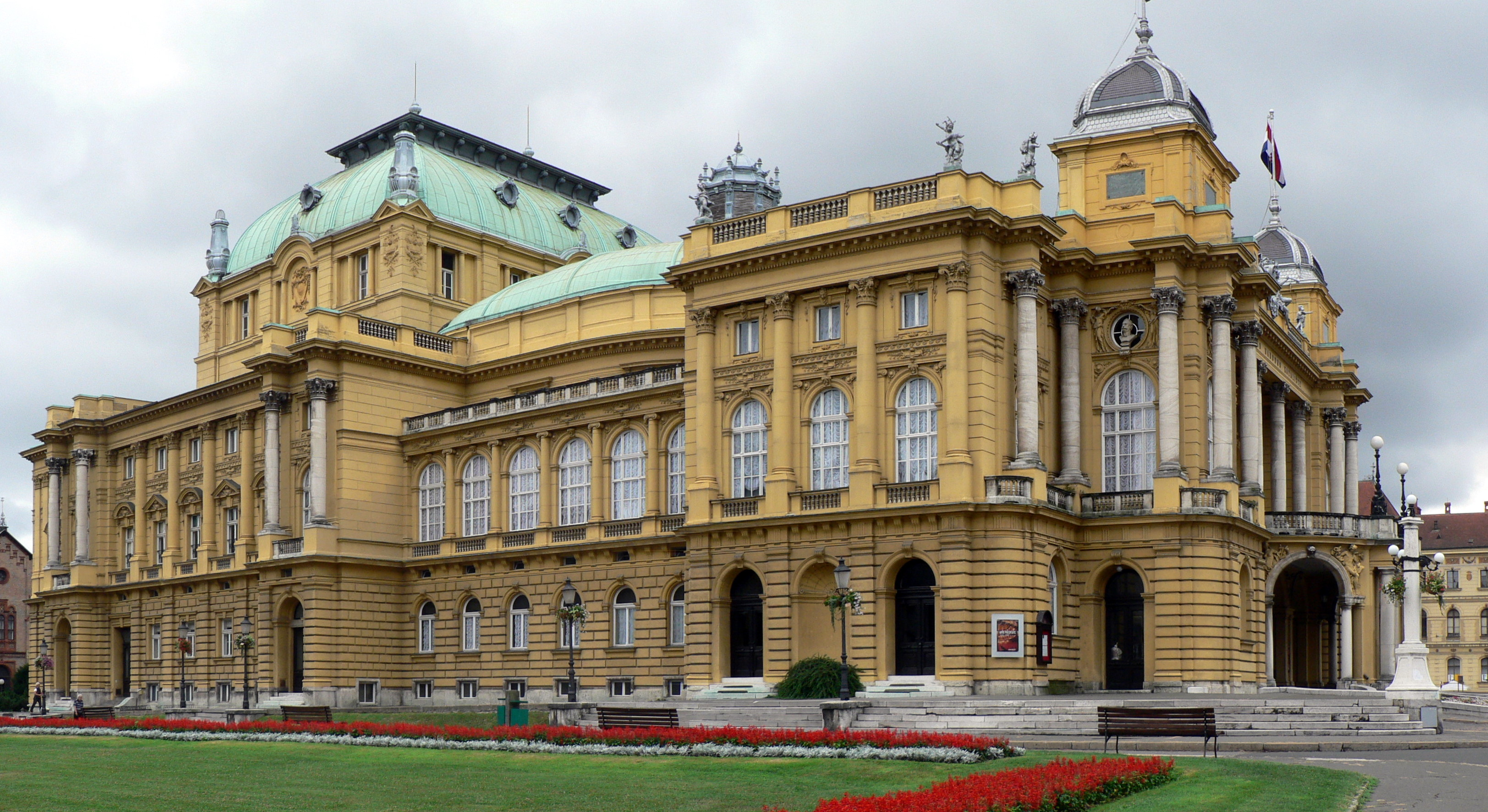 National Theatre in Zagreb